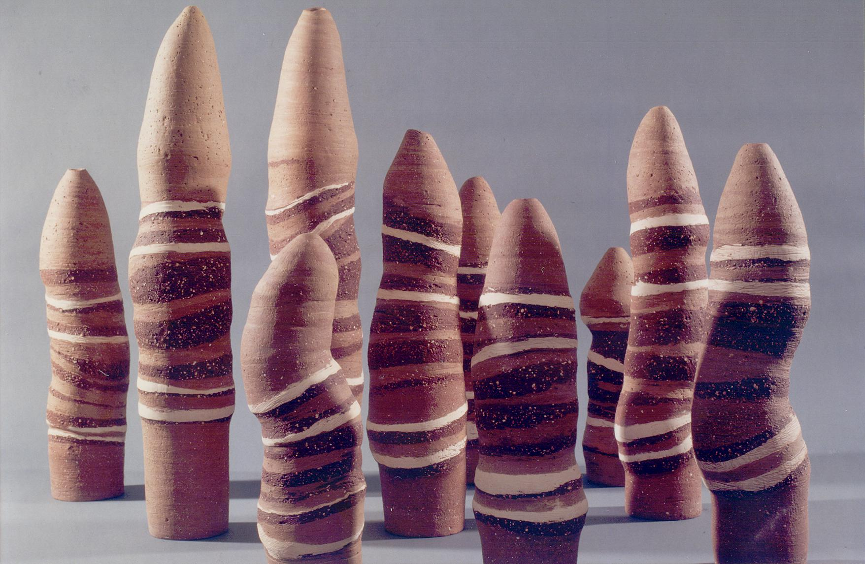 One of the many works of art of the plastic artist João Carqueijeiro